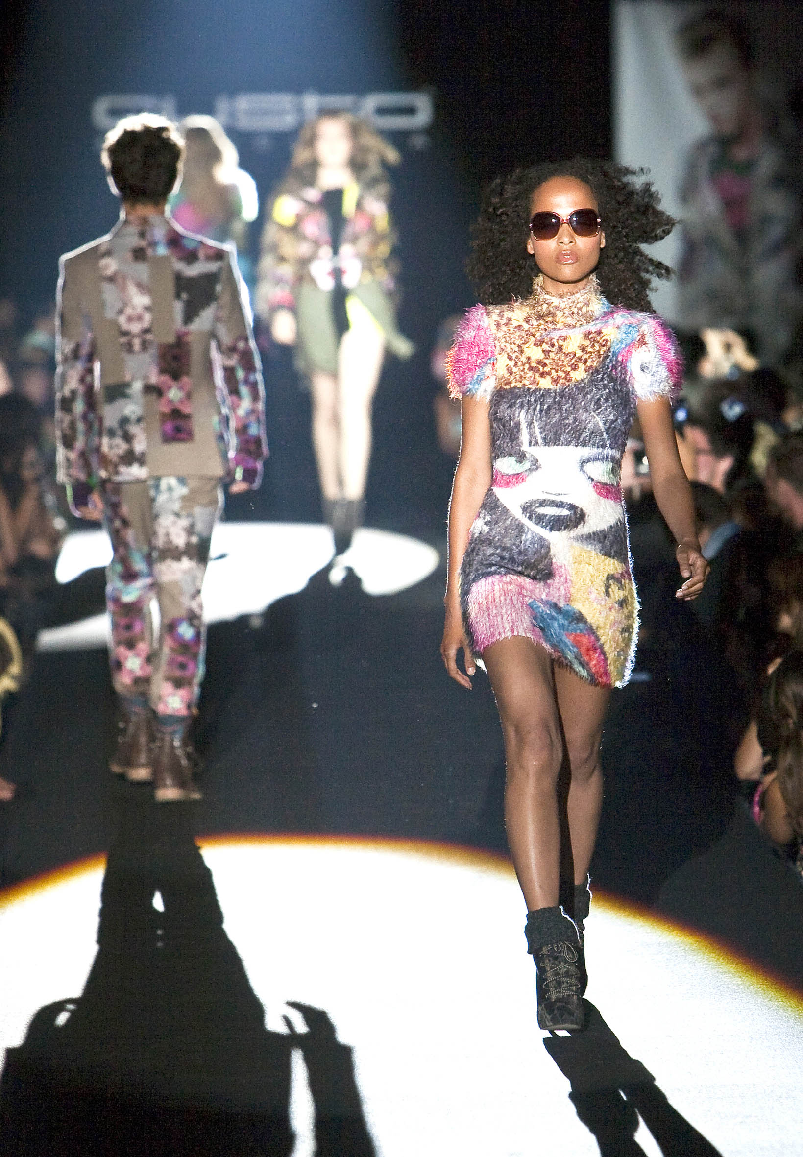 Custo Barcelona at The Brandery Summer Edition 2010